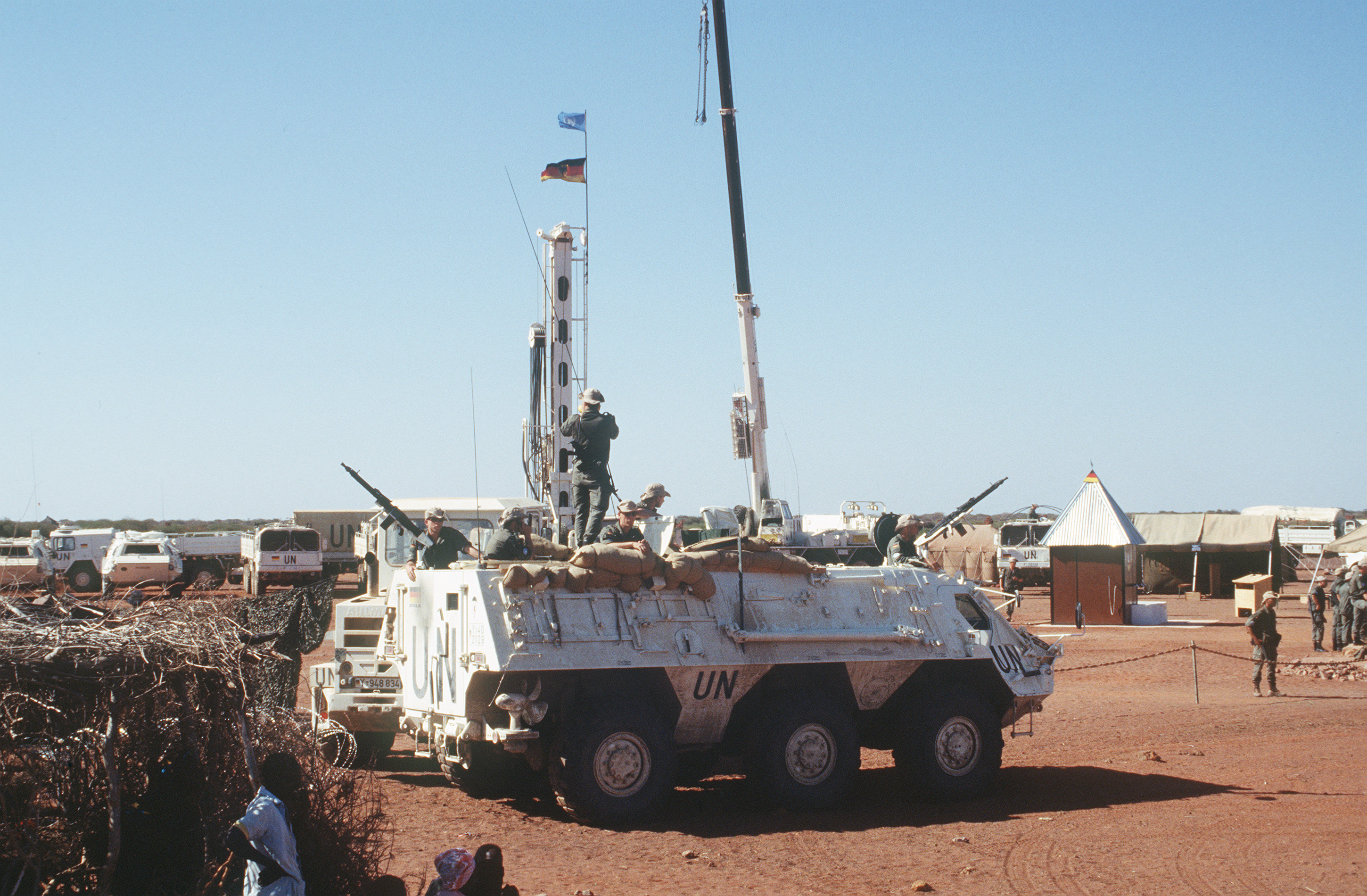 A TPz Fuchs of the Bundeswehr is parked in front of the German vehicle used to drill a new well in the city of Mataban.